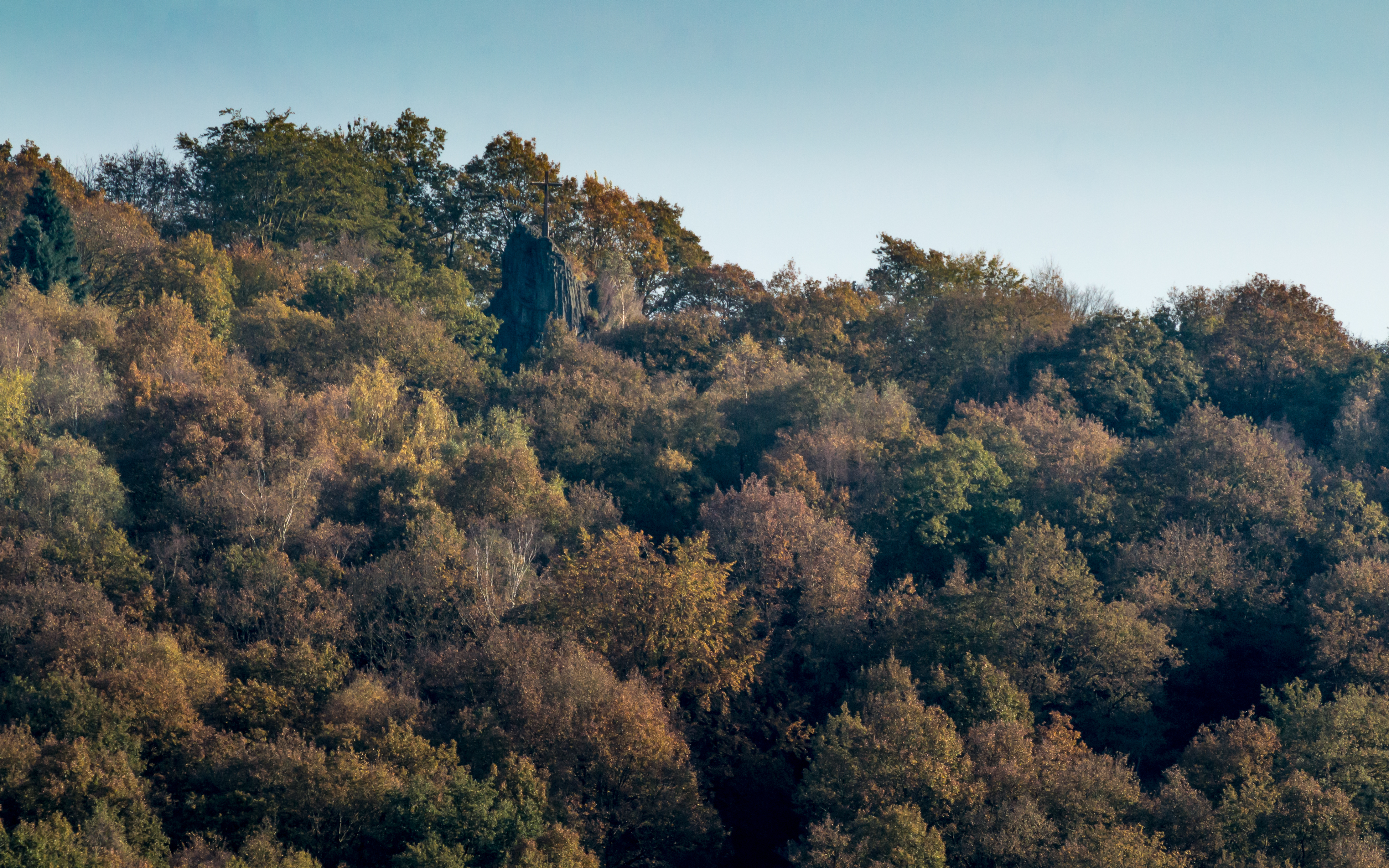 The Druidenstein near Kirchen